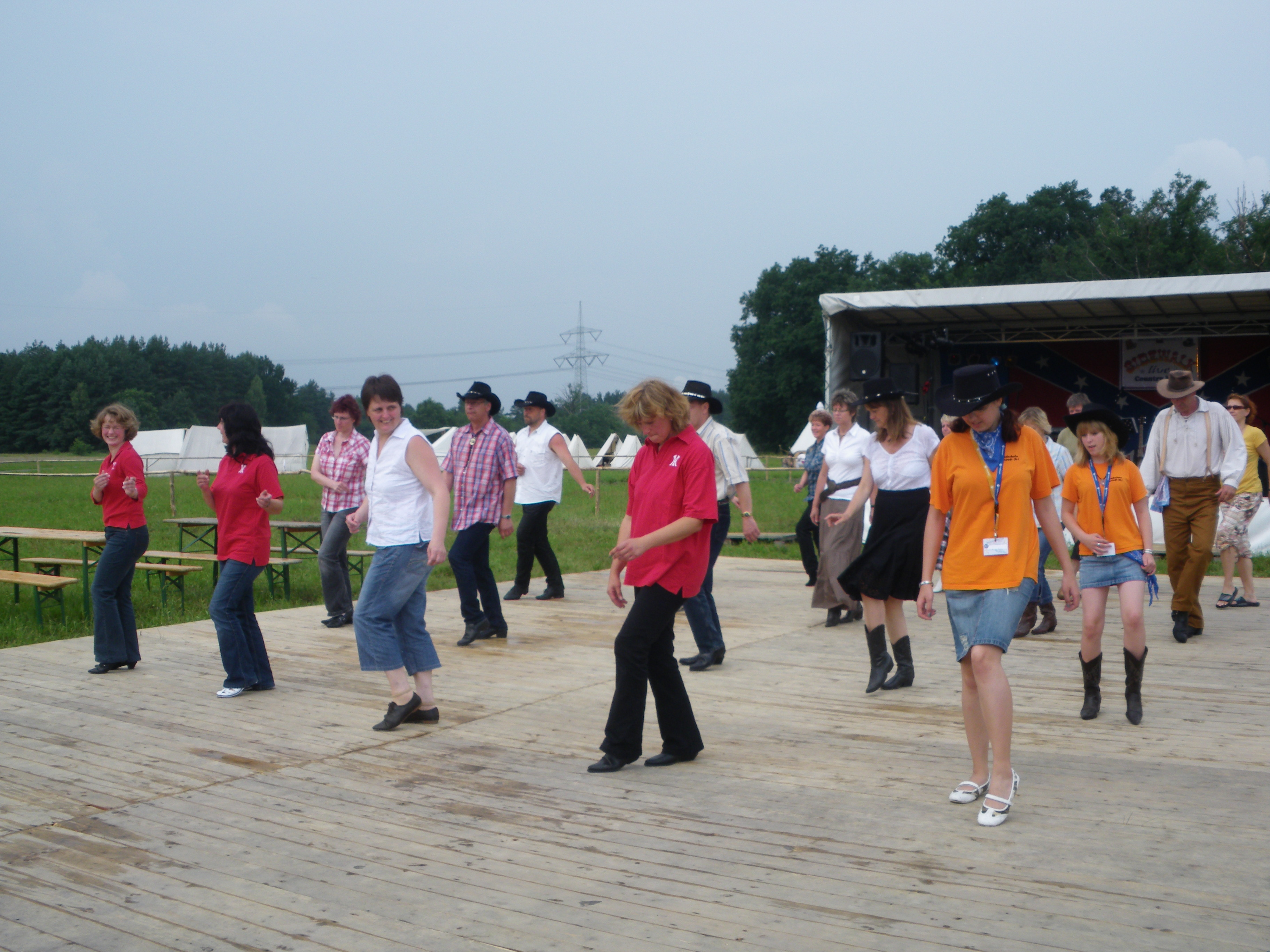 Line Dancers from different organisations at 31st. meeting of villages named Neustadt (in Europe), here in D-02979 Neustadt on Spree, Saxonia, Germany